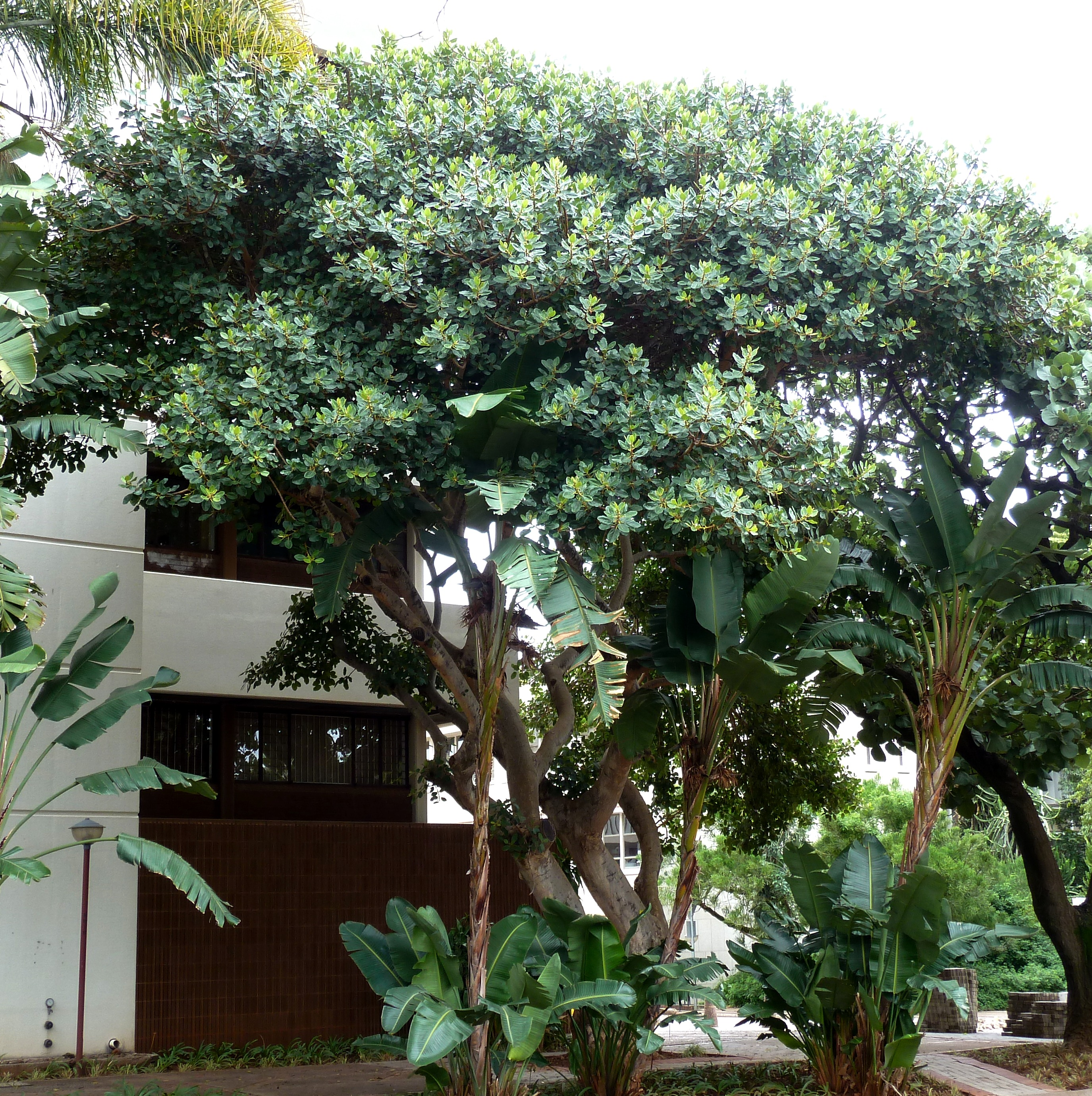 Mountain fig growing near the Manie van der Schijff Botanical Garden at the University of Pretoria, South Africa